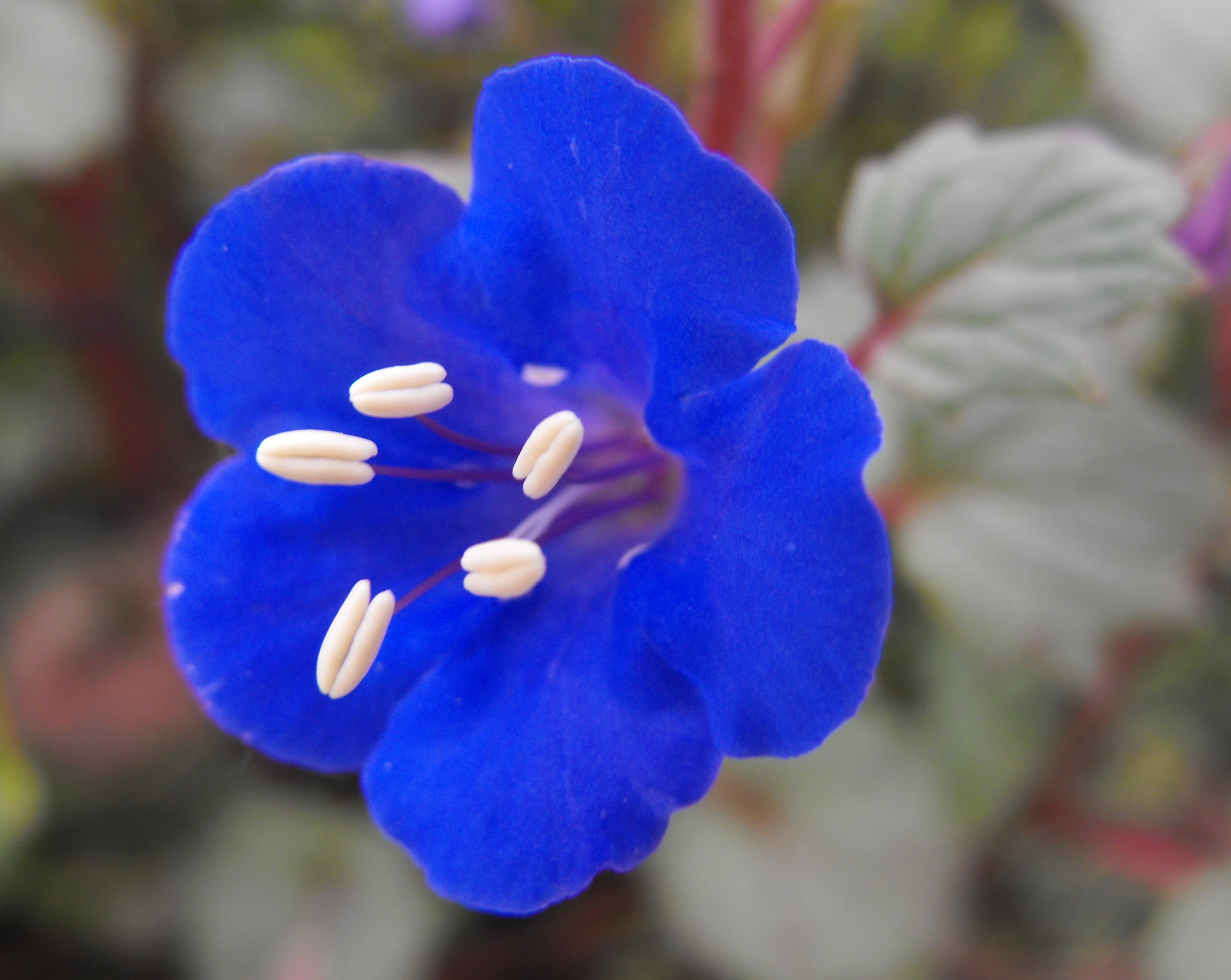 Phacelia campanularia at Rancho Santa Ana Botanic Gardens in Claremont, California, USA. Identified by sign. Unaltered photo (it's really that color).